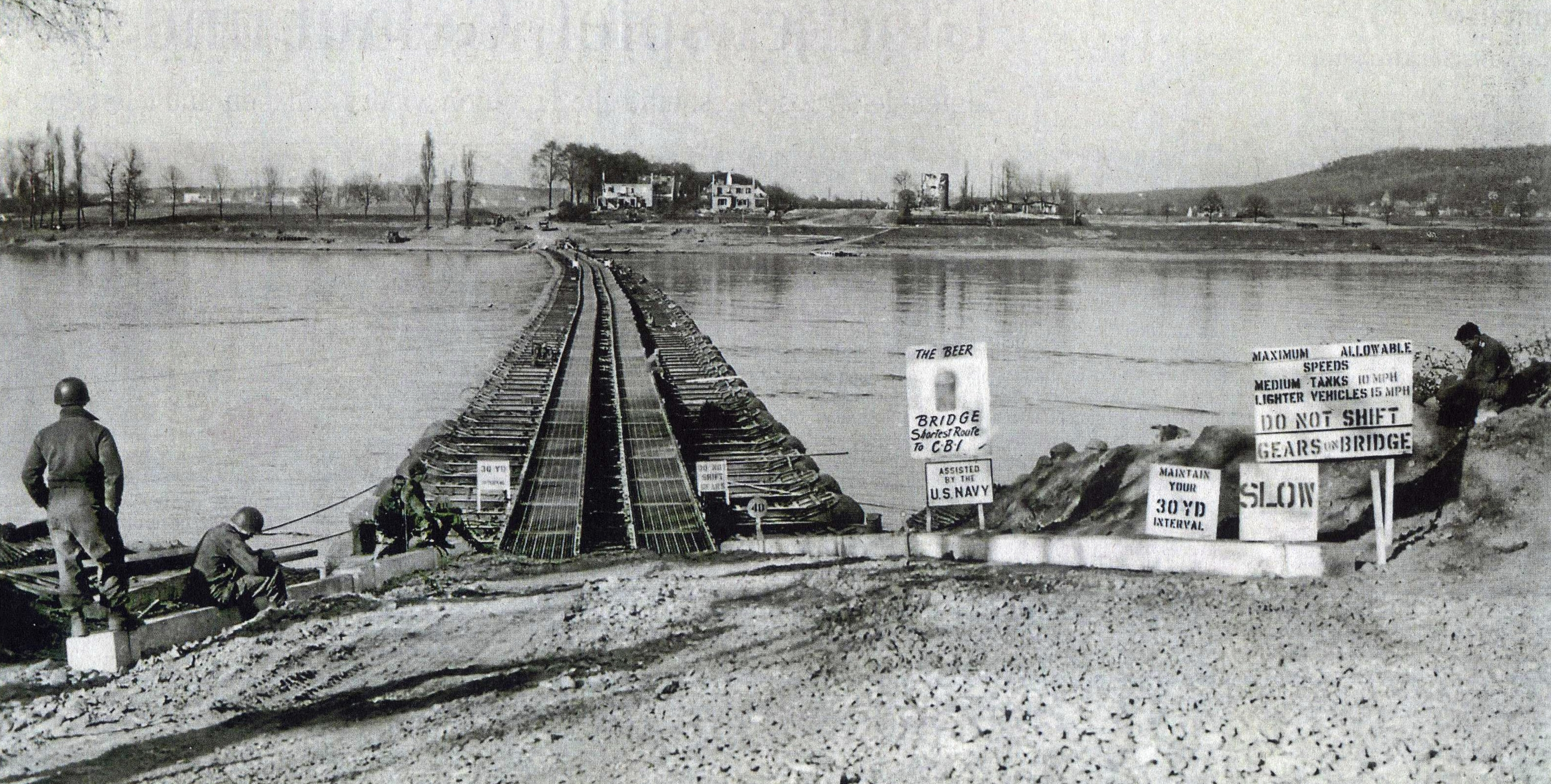 Pontoon bridge built by the 237st Combat Engineers across the Rhine (called "Beer-Bridge"), downstream from the Ludendorff Bridge at Remagen, between Bonn and Beuel; view to Beuel-Limperich.